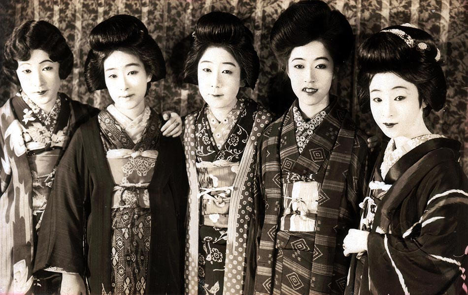 Actresses on a Japanese 1926 film poster for "Yofu gonin onna"; l to r: Kurishima Sumiko, Matsui Chieko, Kawata Yoshiko, Tsukuba Yukiko and Yanagi Sakuko.